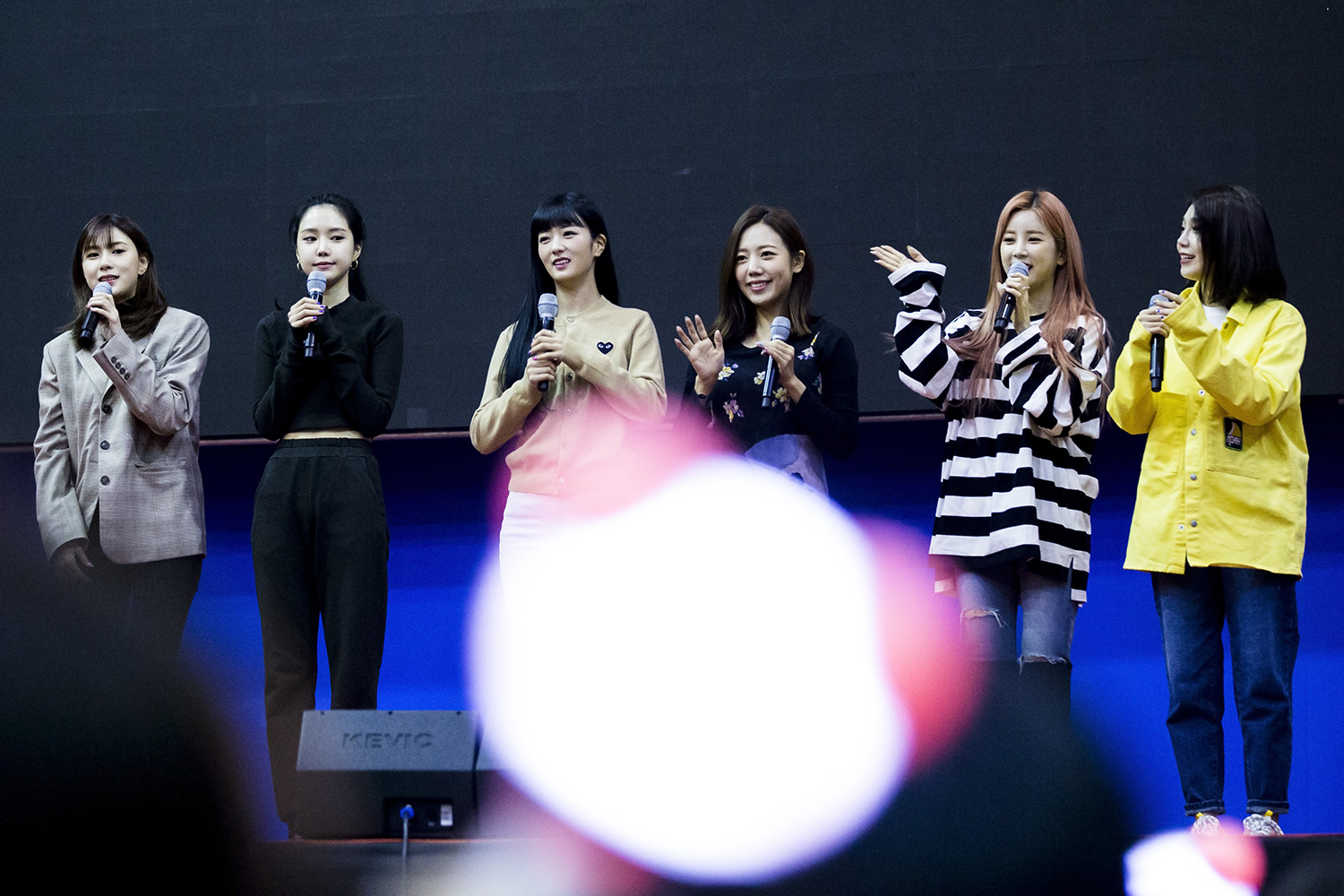 Apink hold a mini fan meeting after performing at SBS 'Inkigayo'.